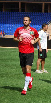 a picture of driss fettouhi in the national team of morocco